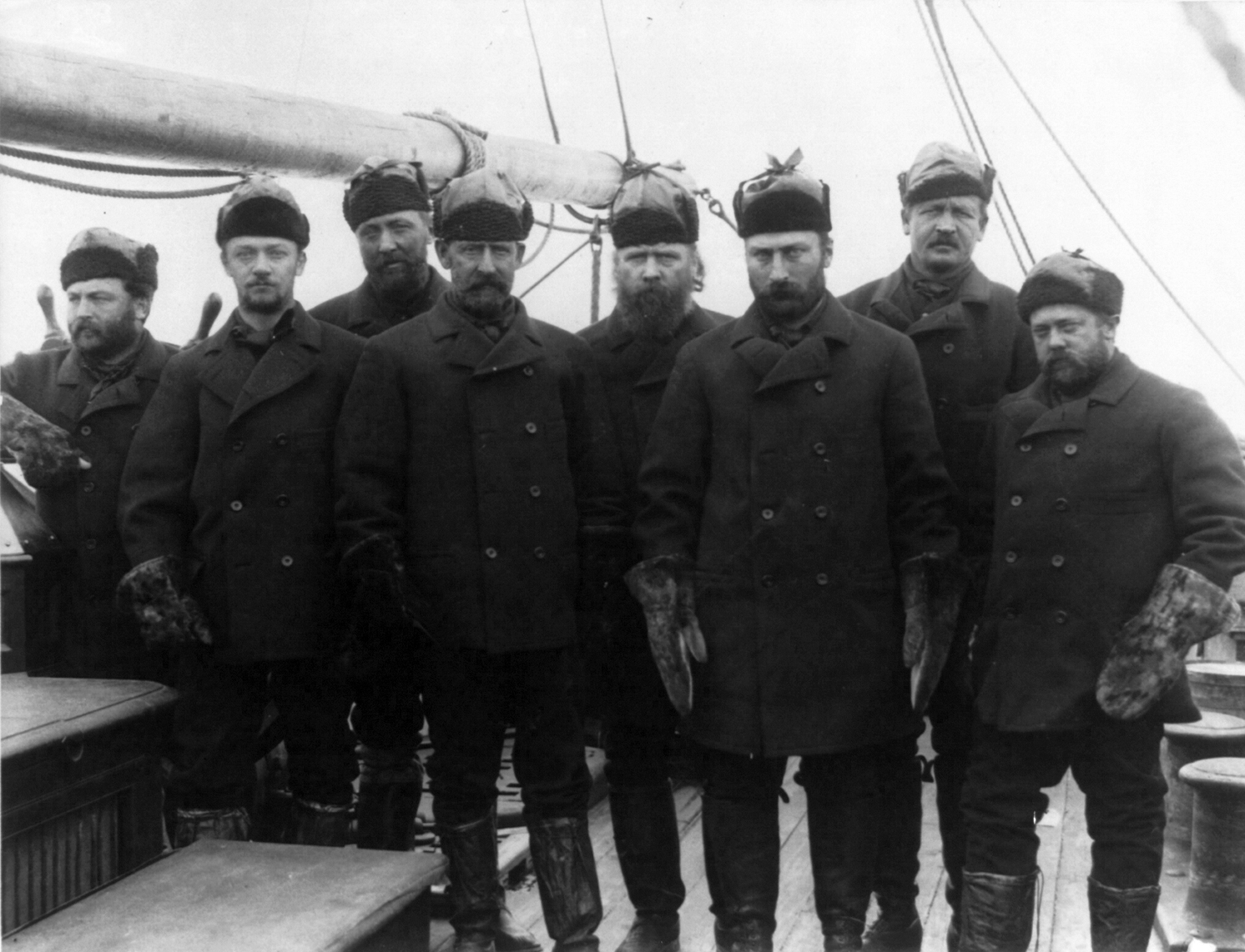 Commander Winfield Scott Schley (4th from left) and men who rescued Greely Expedition survivors